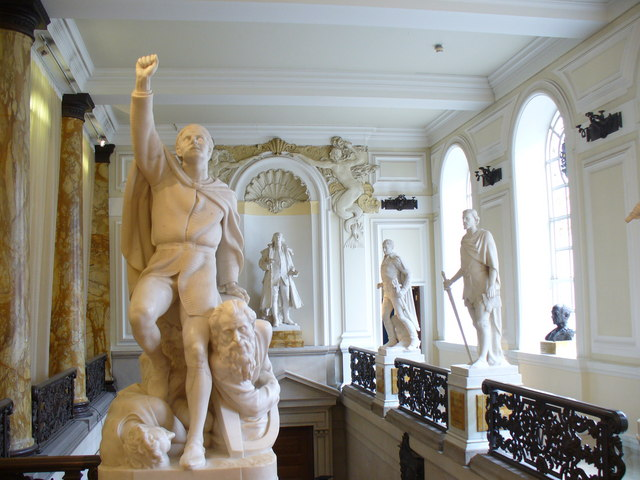 Heroes of Wales Some of the classical marble statues in Cardiff City Hall - with Prince Llewellyn in the foreground.